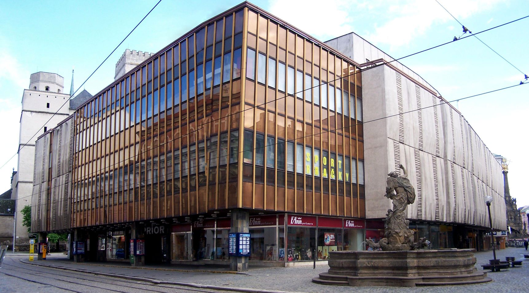 Prior Department store in Olomouc, the Czech Republic